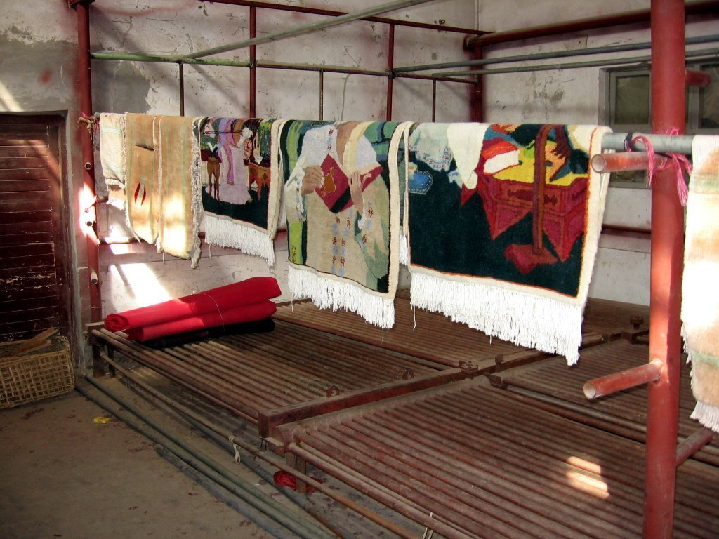 Khotan (Hotan / Hetian) is an oasis city in the Xinjiang Uygur Autonomous Region of the People's Republic of China. Carpet factory.